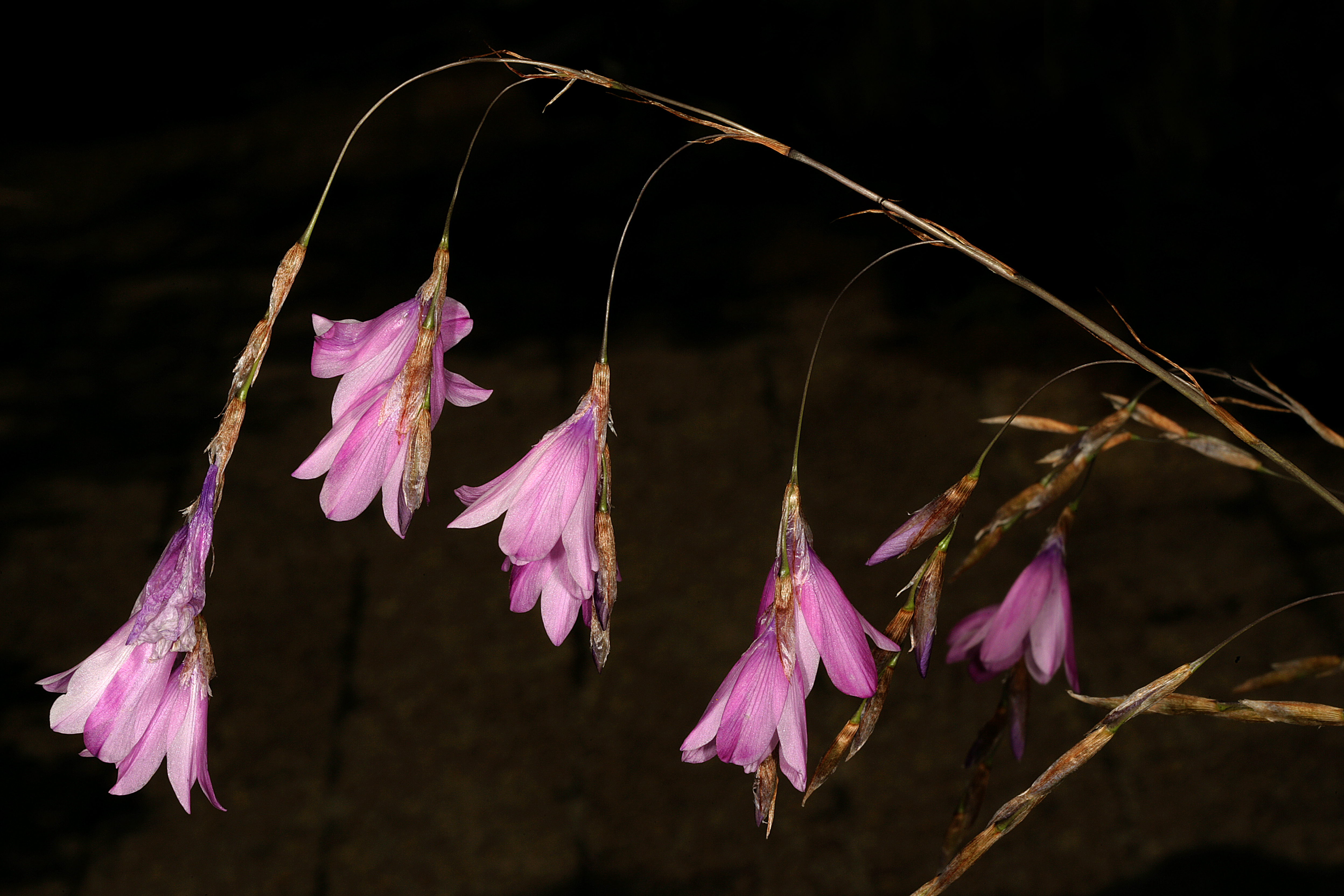 Dierama latifolium, part of inflorescence, with several drooping coflorescences; Kirstenbosch National Botanical Garden, Cape Town, Western Cape, South Africa